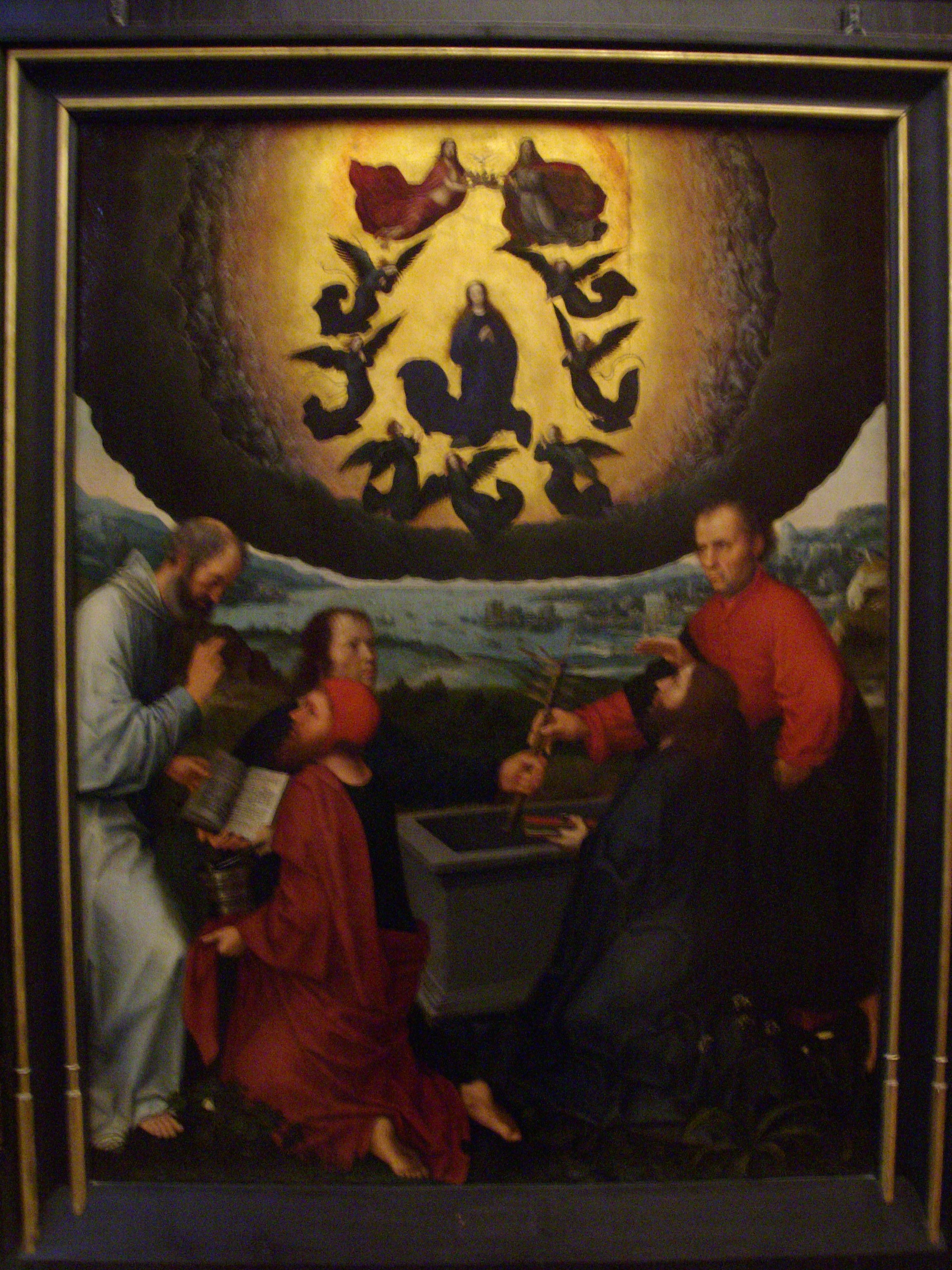 Altar of Assumption of Mary